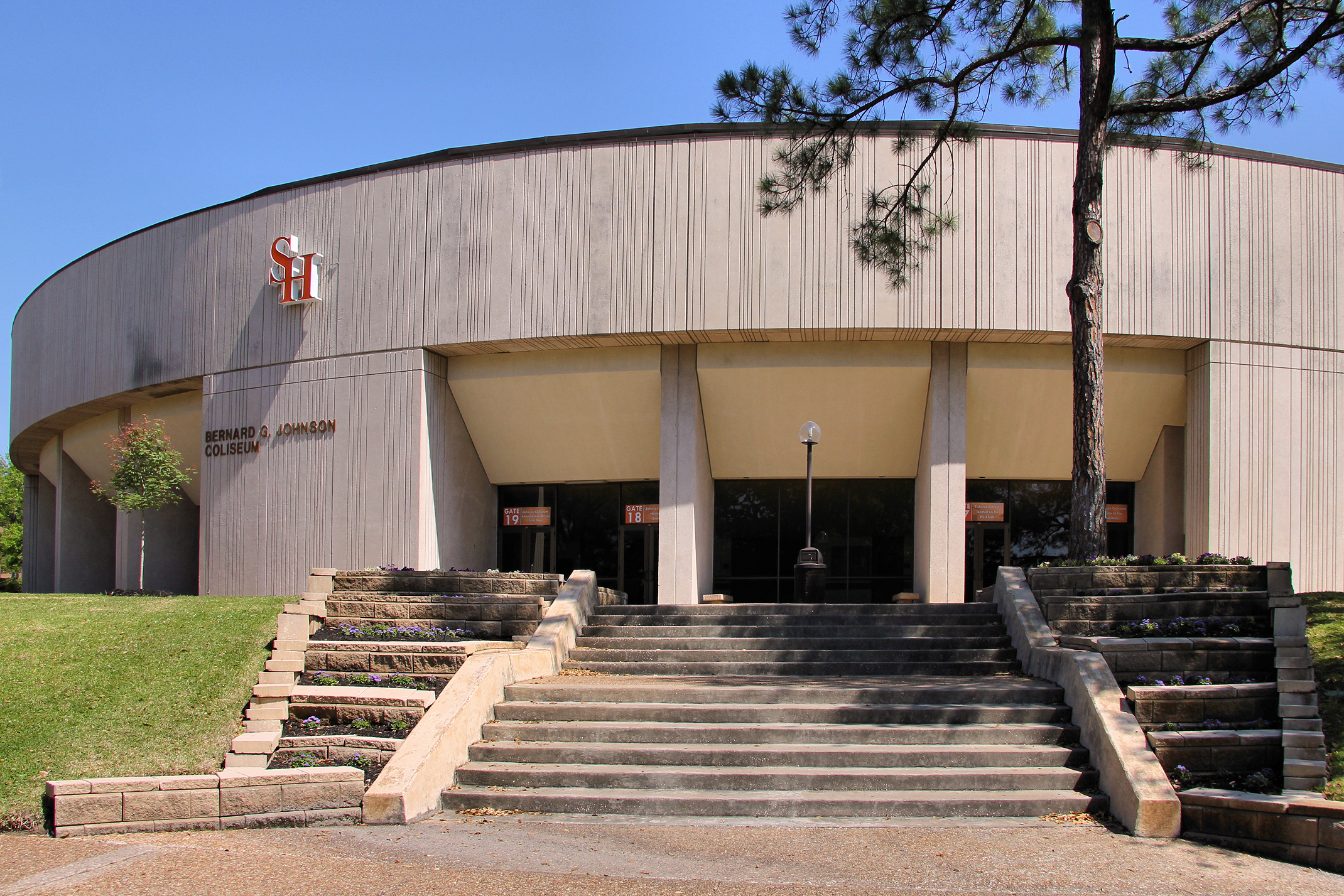 Bernard G. Johnson Coliseum, on the campus of Sam Houston State University in Huntsville, Texas, United States.